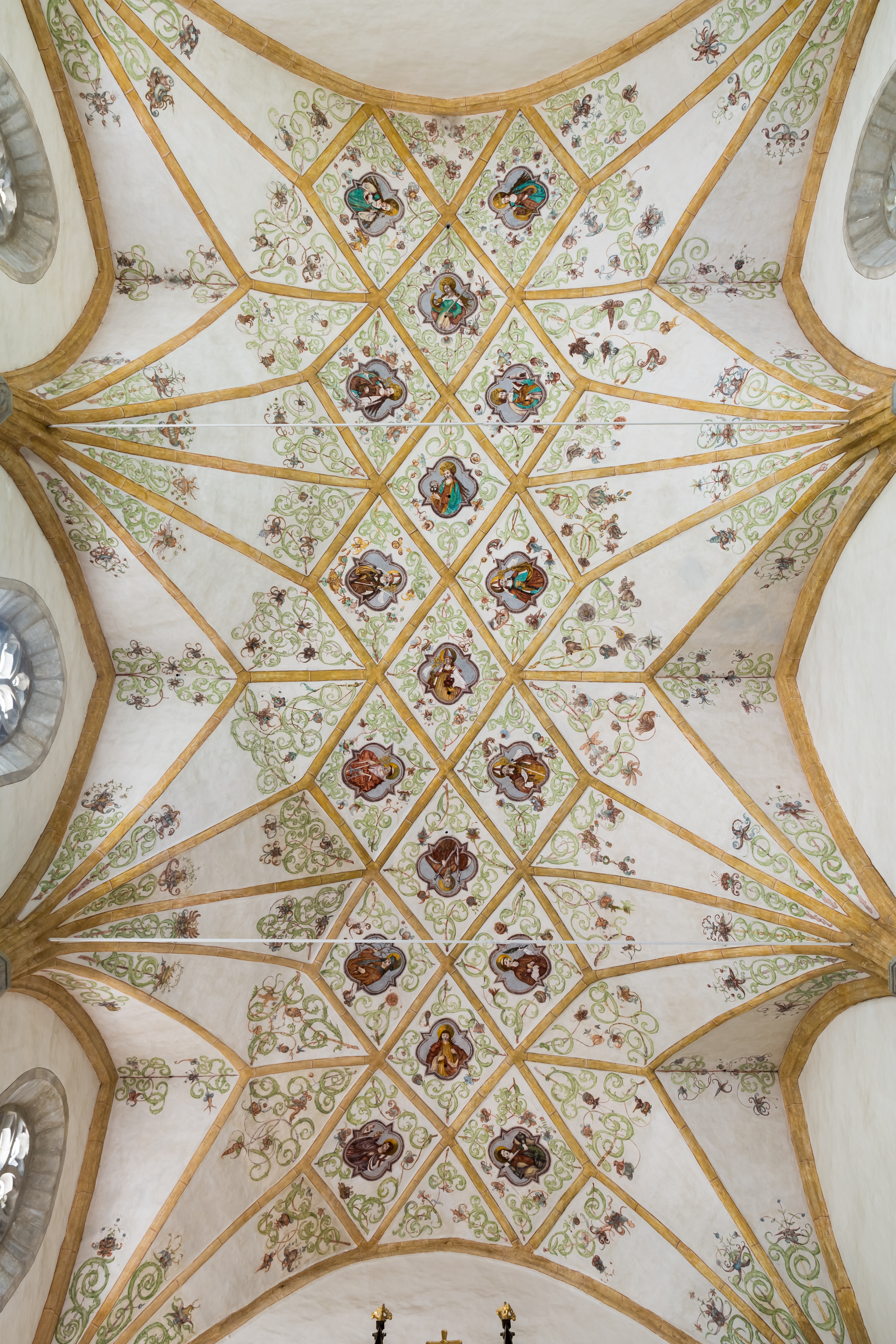 Painted vault in the nave of the subsidiary and pilgrimage church Saint Wolfgang in Grades, Carinthia, Austria